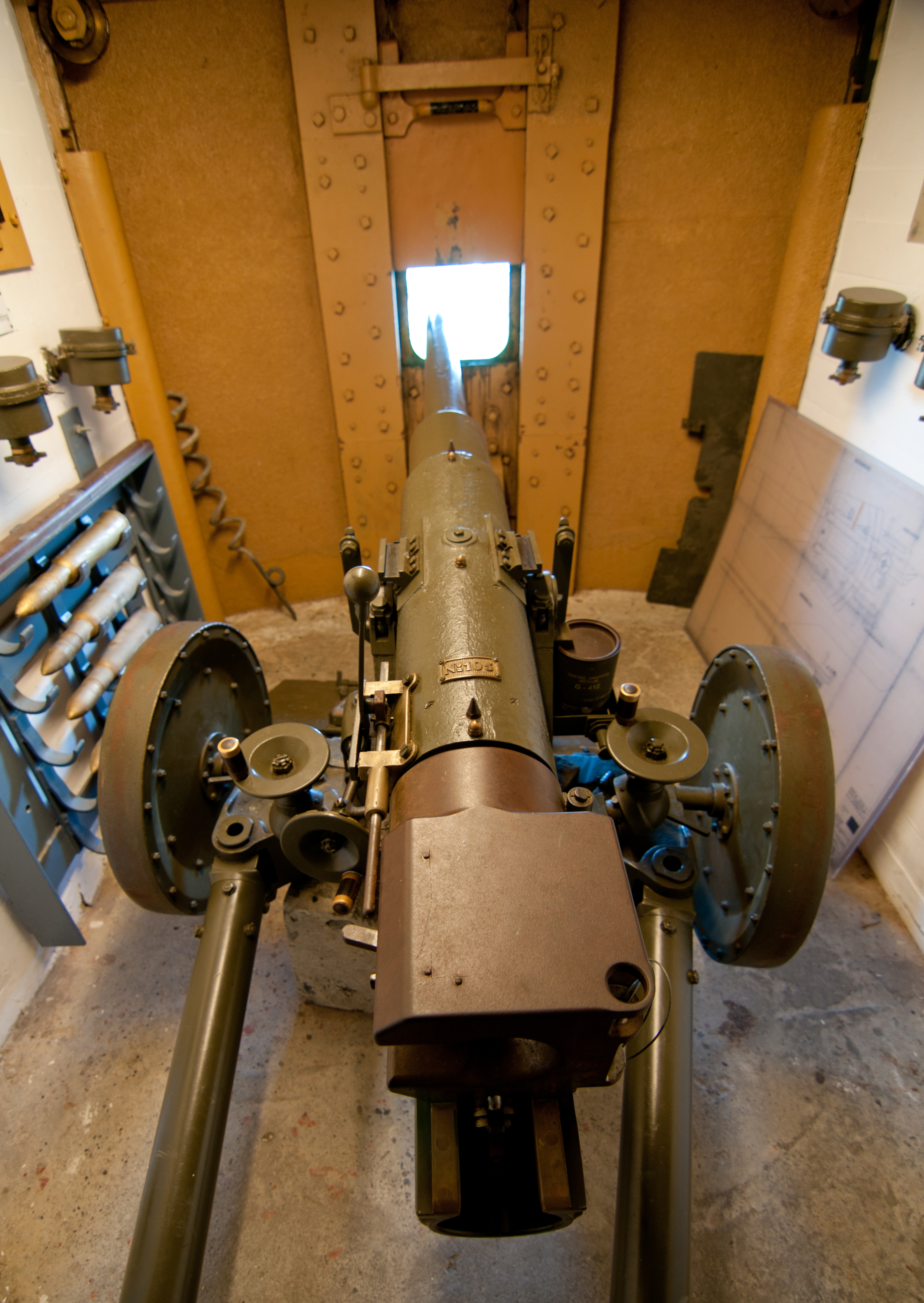 This was one of the few places that held out against the German invaders in may 1940. Its occupants only surrendered after the Germans bombed Rotterdam on the 14th of may and The Netherlands capitulated on the 15th of may 1940. Nikon D300 with Tokina 11-16 mm 2.8